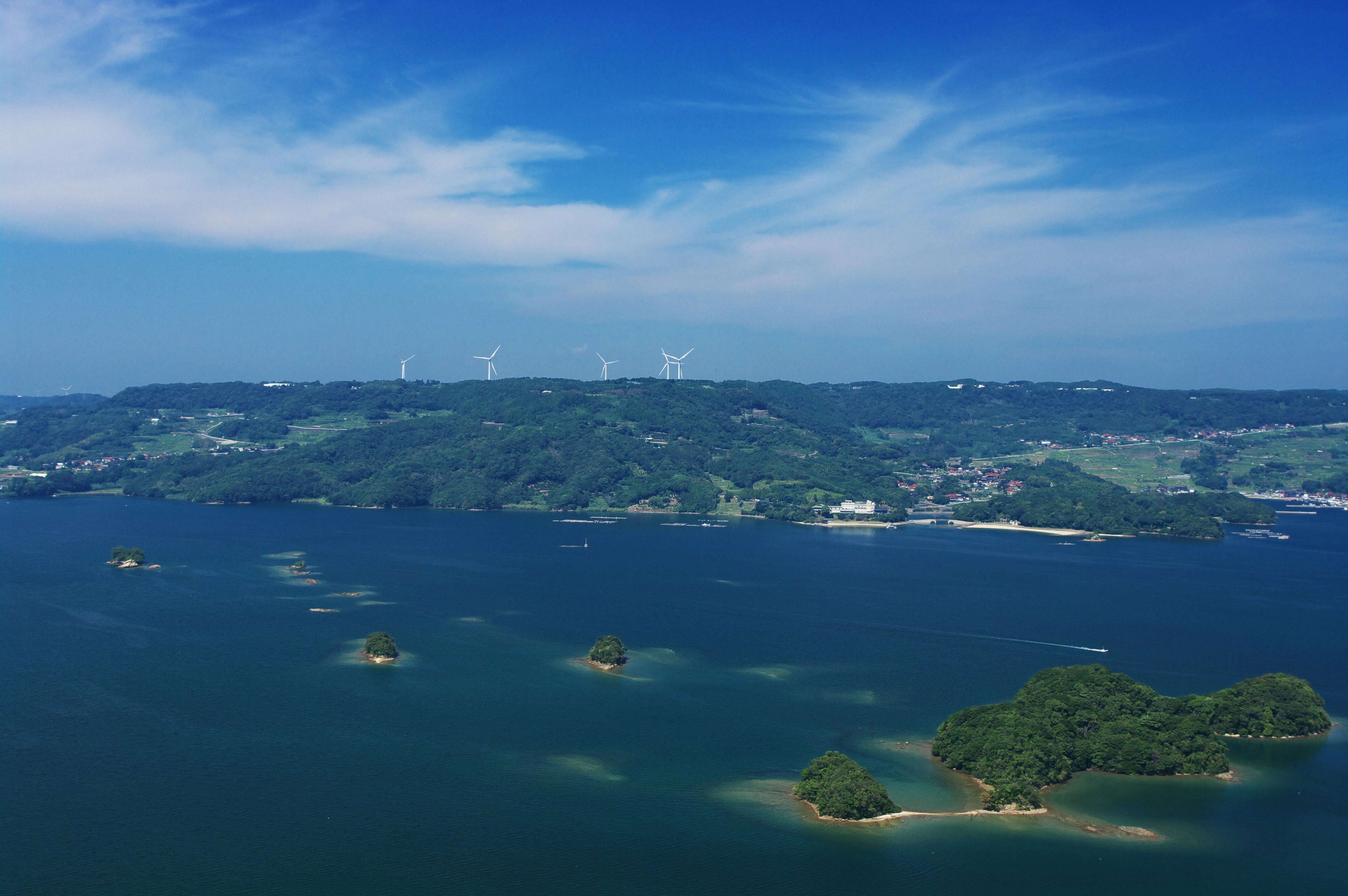 Irohajima in Imari Bay and Hizen town, from Shiratake peak of Fukushima island, Matsuura city, Nagasaki prefecture.